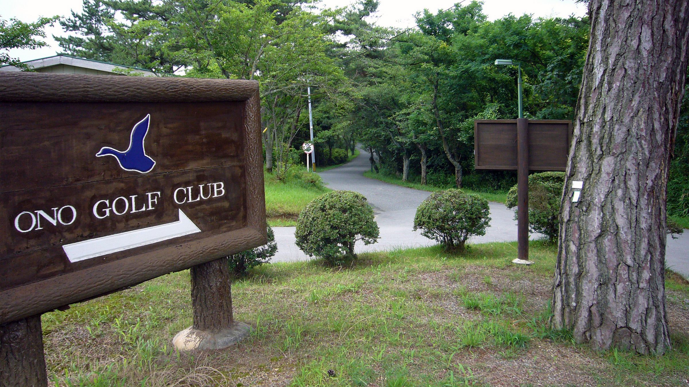 Ono Golf Club in Ono, Japan